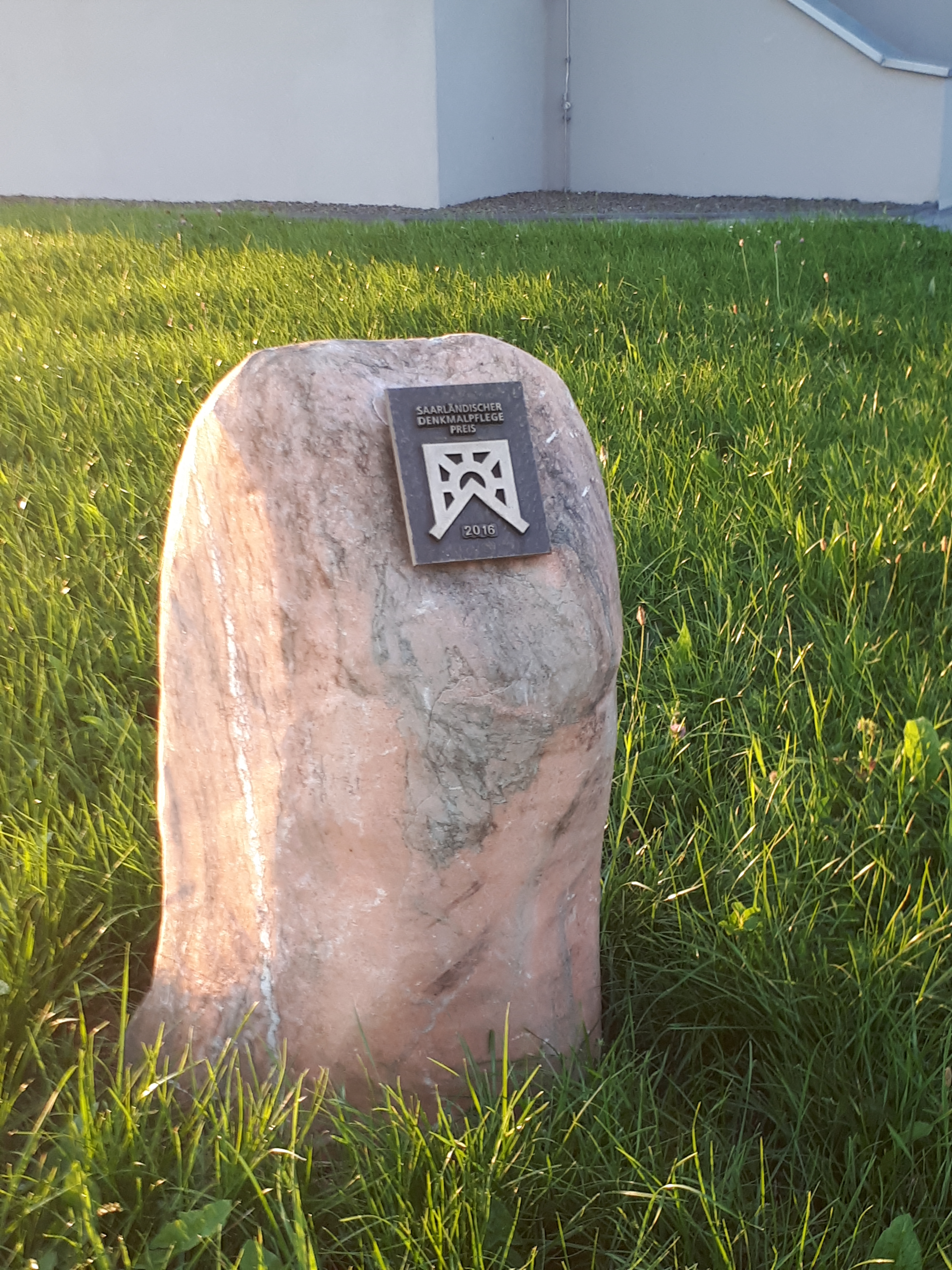 Pedestal with the plaque of the Saarland Historic Preservation Prize 2016 on the grounds of the water reservoir Göttelborn